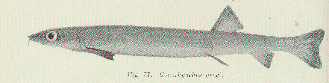 Gonorhynchus greyi Subject: Osteichthyes, Gonorhynchus Tag: Fish